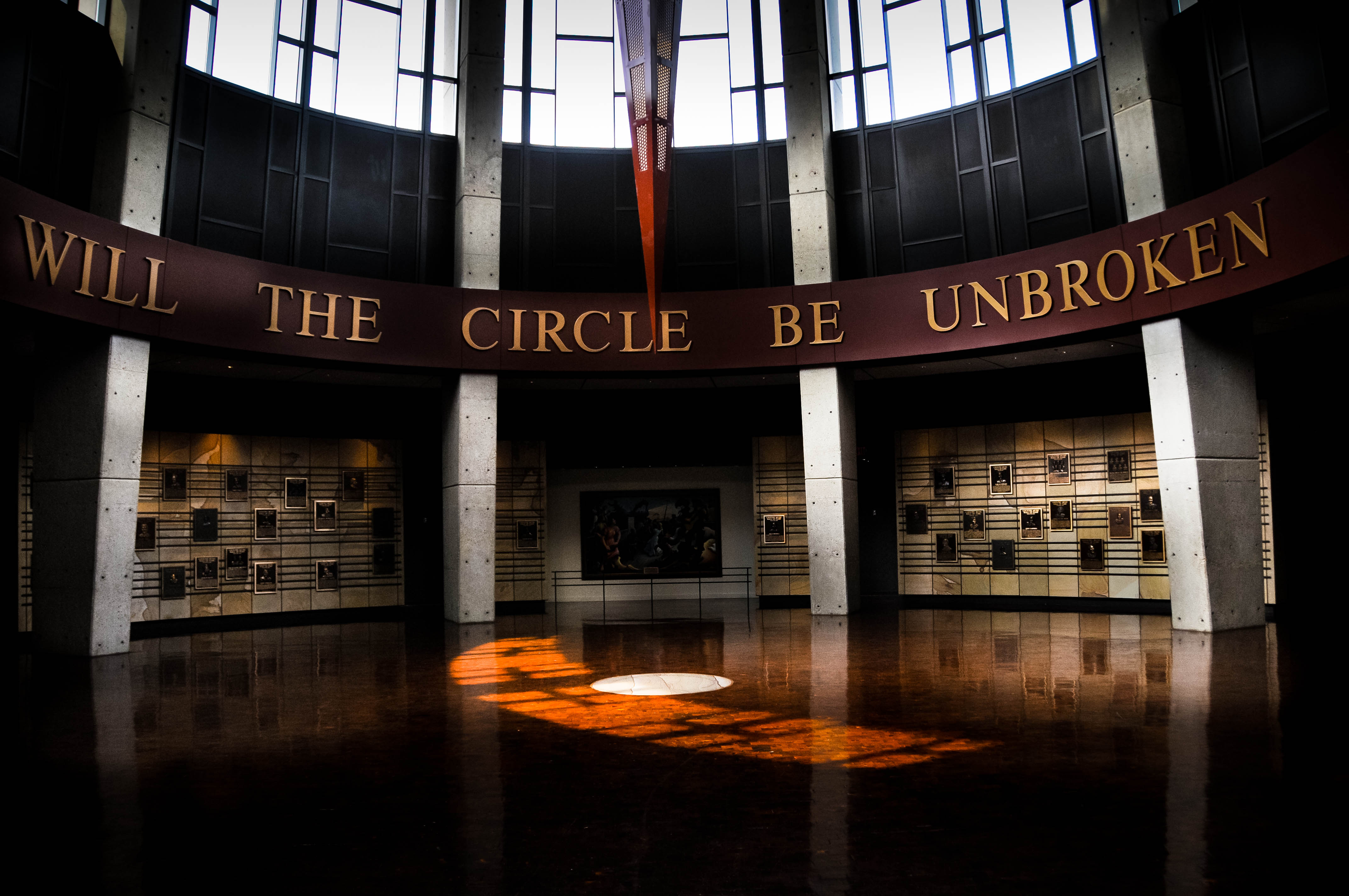 Country Music Hall of Fame and Museum Rotunda with inductees plaques.